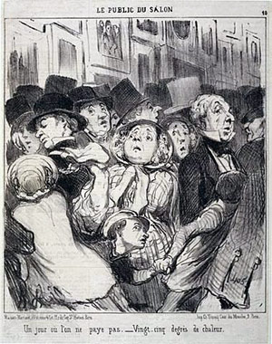 Honoré Daumier, Free day at the Salon, from the series Le Public du Salon, published in Le Charivari (May 17, 1852) p. 10